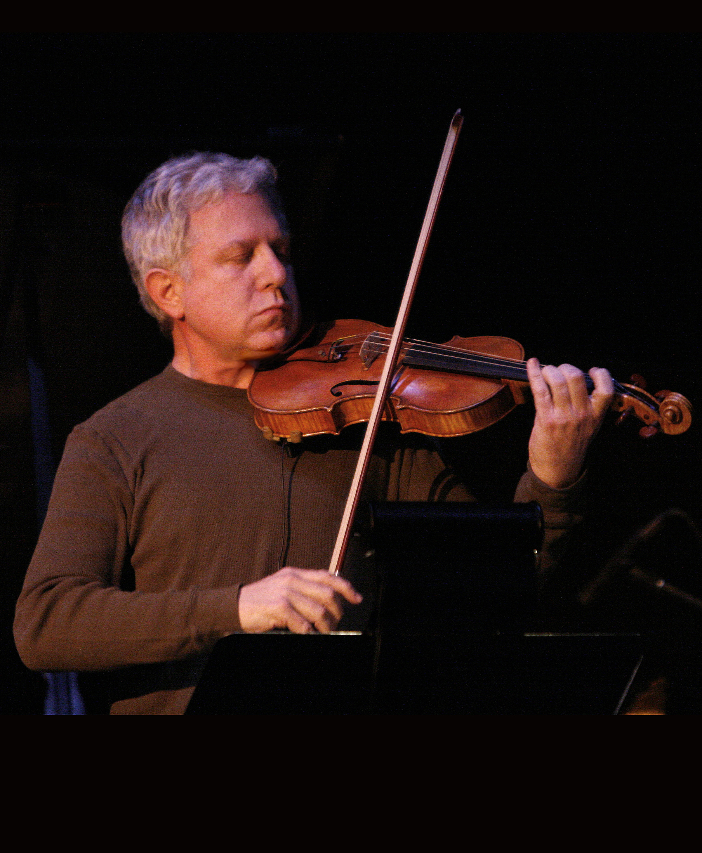 Performing with Todd Sickafoose.